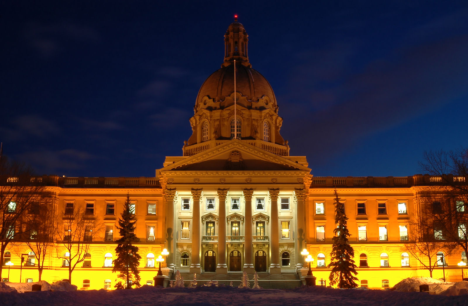 Alberta Legislature Building 0 Focal Length: 28 mm